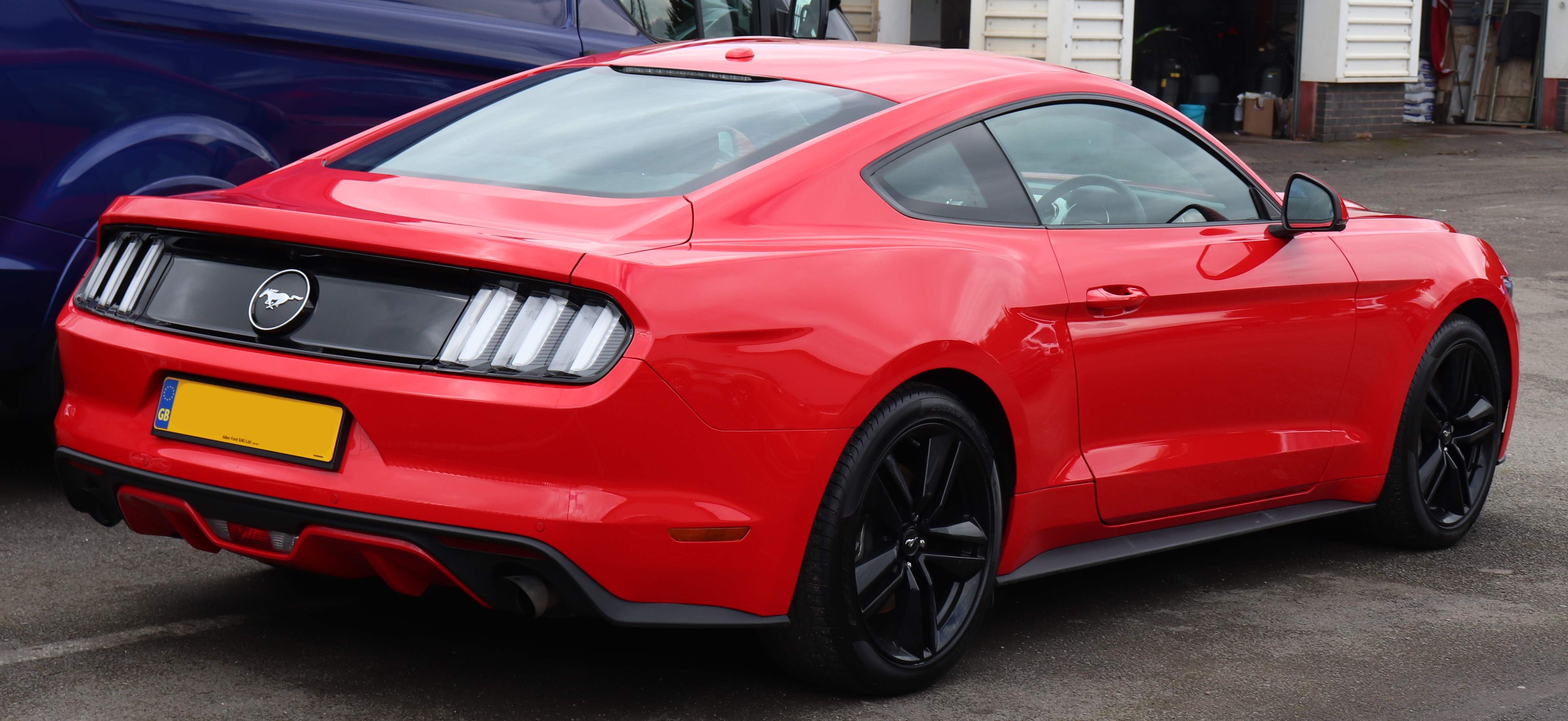 2017 Ford Mustang EcoBoost 2.3 Rear Taken in Leamington Spa